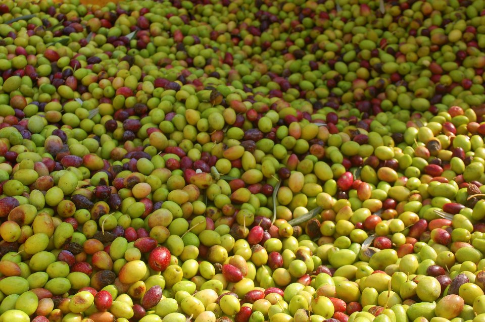 Olives right after harvest